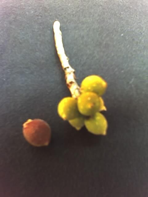 Ficus stuhlmannii figs